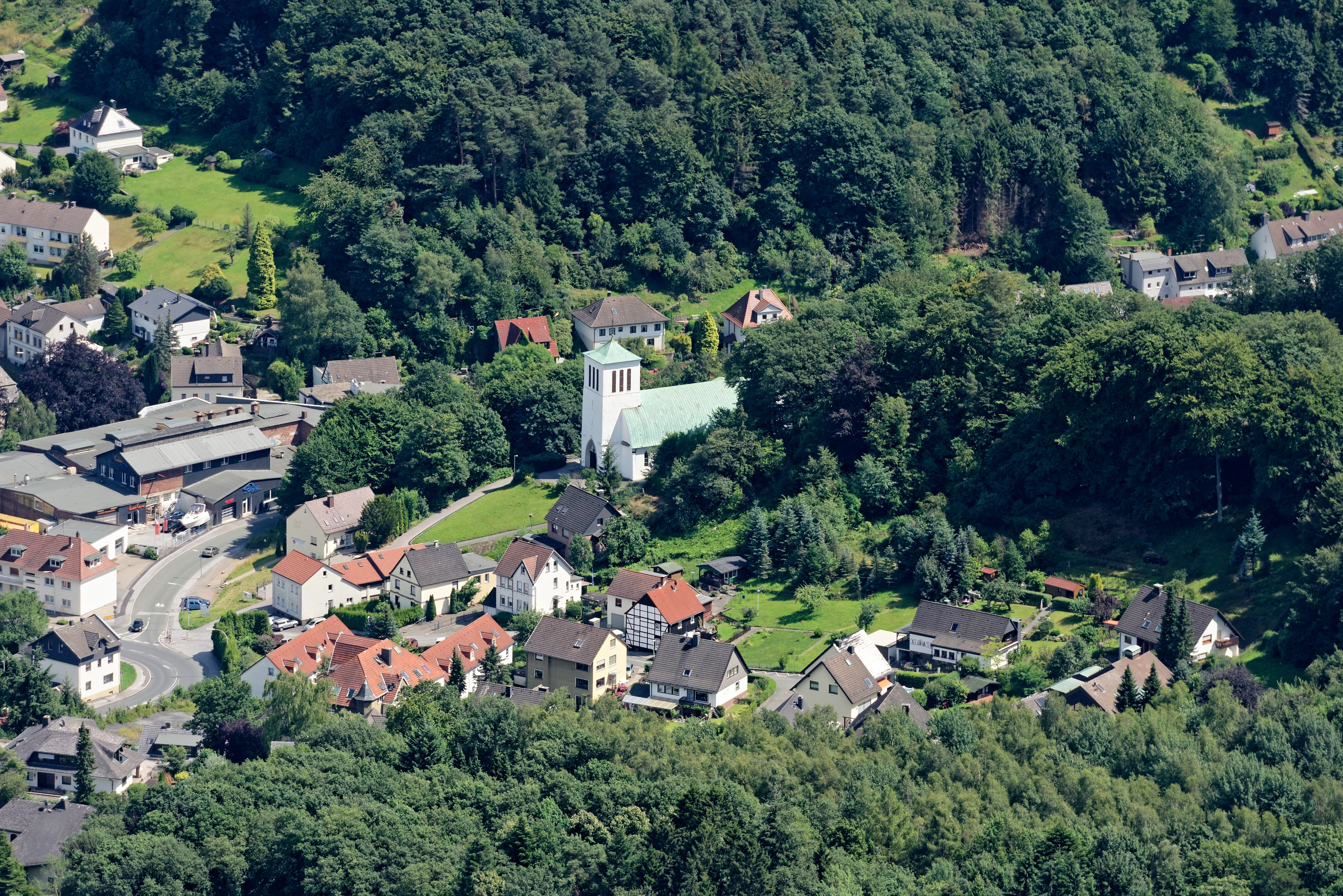 The making of this document was supported by the Community-Budget of Wikimedia Germany. Hemer-Wiehagen, Pfarrkirche St. Petrus Canisius, Landesstraße 693